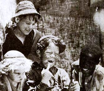 Still from the Our Gang comedy short film A Quiet Street (1922), on page 248 of the December 30, 1922 Exhibitor's Trade Review.